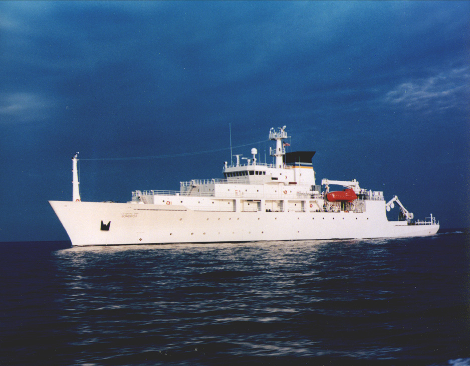 USNS Bowditch (T-AGS 62) while at sea.